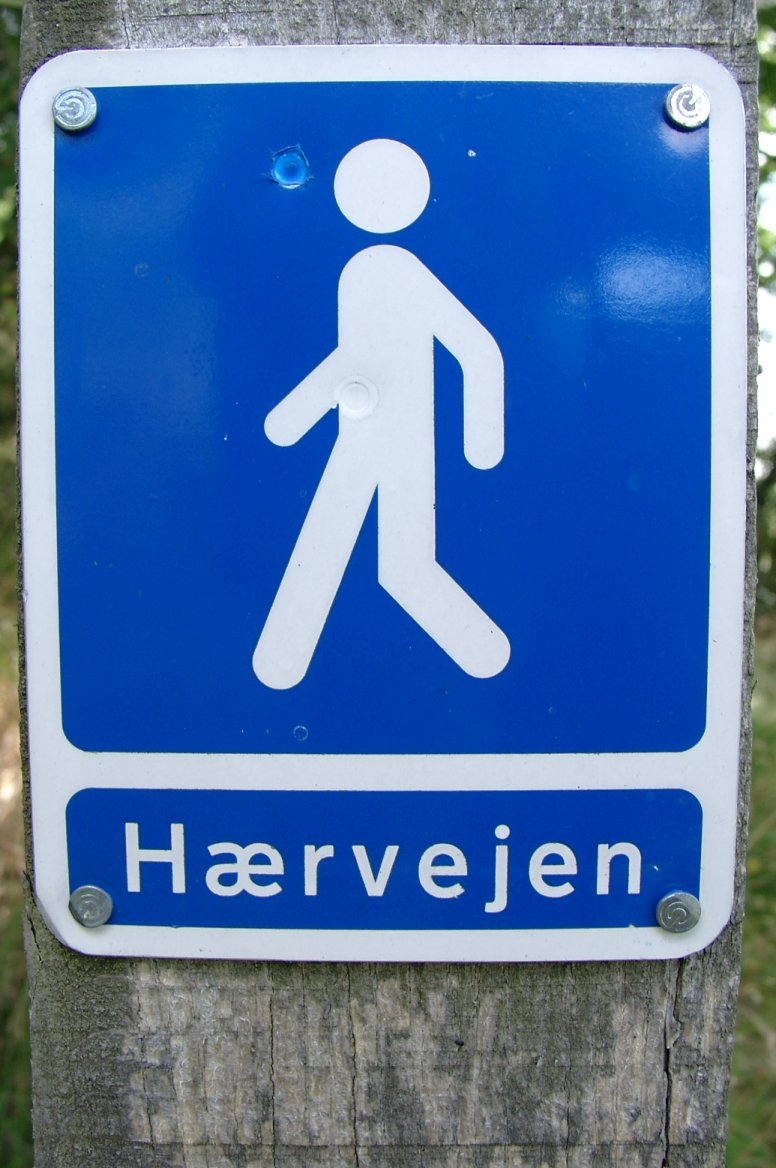 Signpost for marking the long-distance walking route along the ancient track way in Denmark and Schleswig-Holstein mainly between the modern cities of Flensburg and Viborg ( "The old army road")